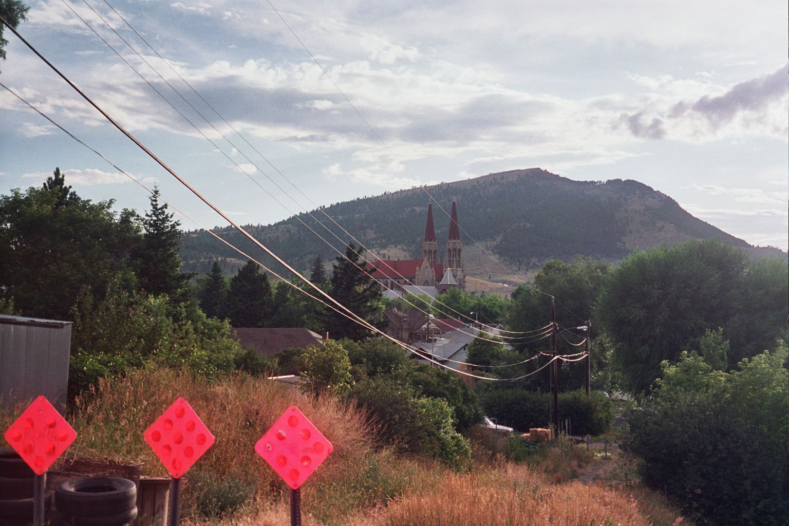 Helena, Montana, USA, dead end street in front of cathedral